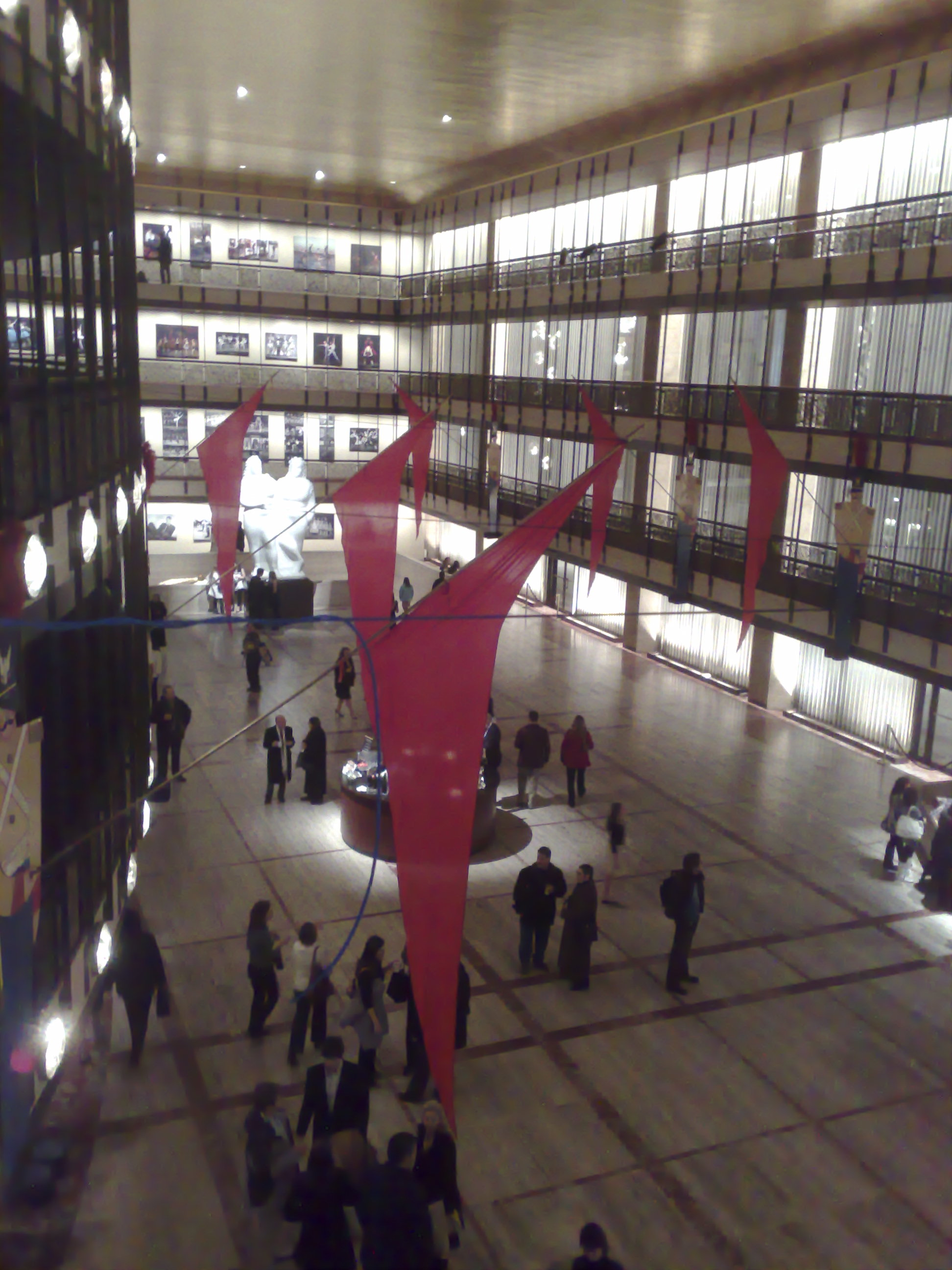 Lincoln Centre - at the NutcrackerLincoln Centre - at the Nutcracker